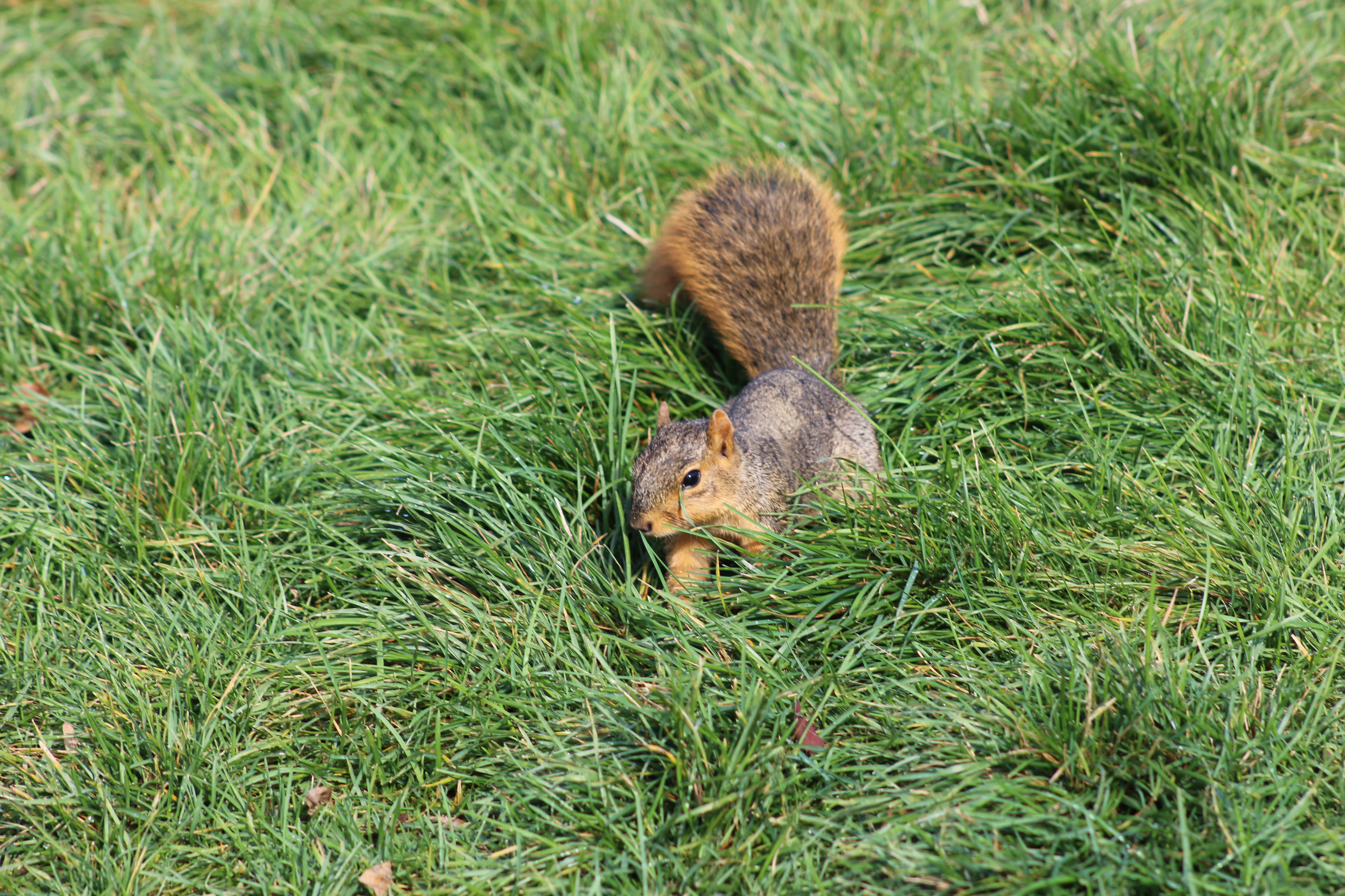 Fox squirrel foraging through the grass in Indianapolis, IN, September 28, 2014.